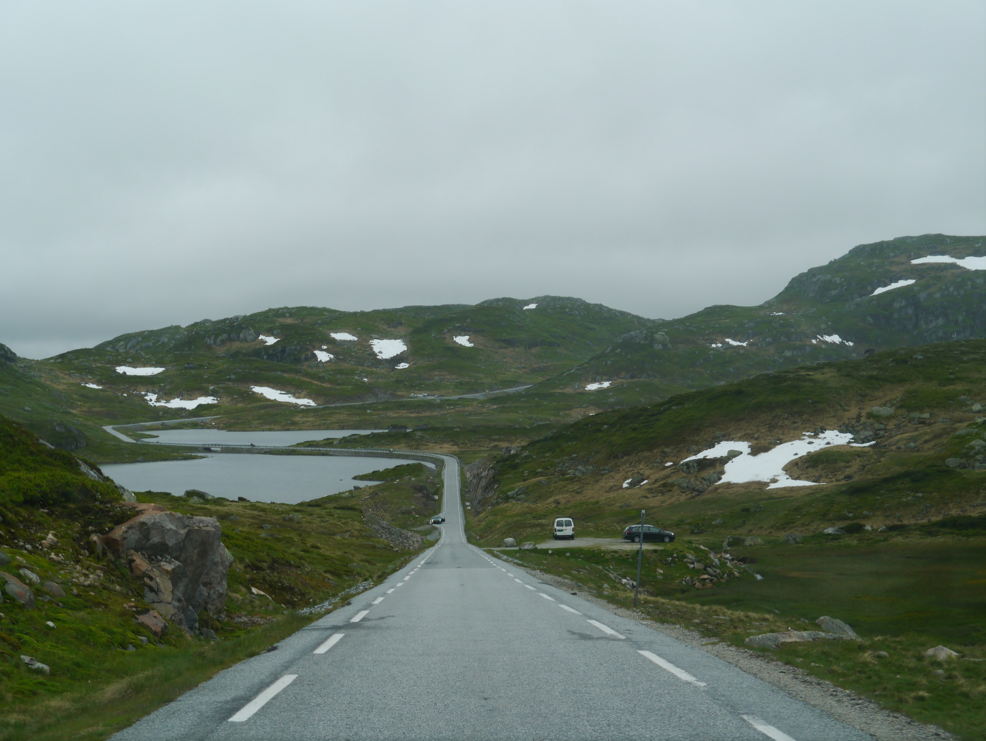 on the pass road between Sirdal and Lyseborn, Rogaland County, Southwestern Norway